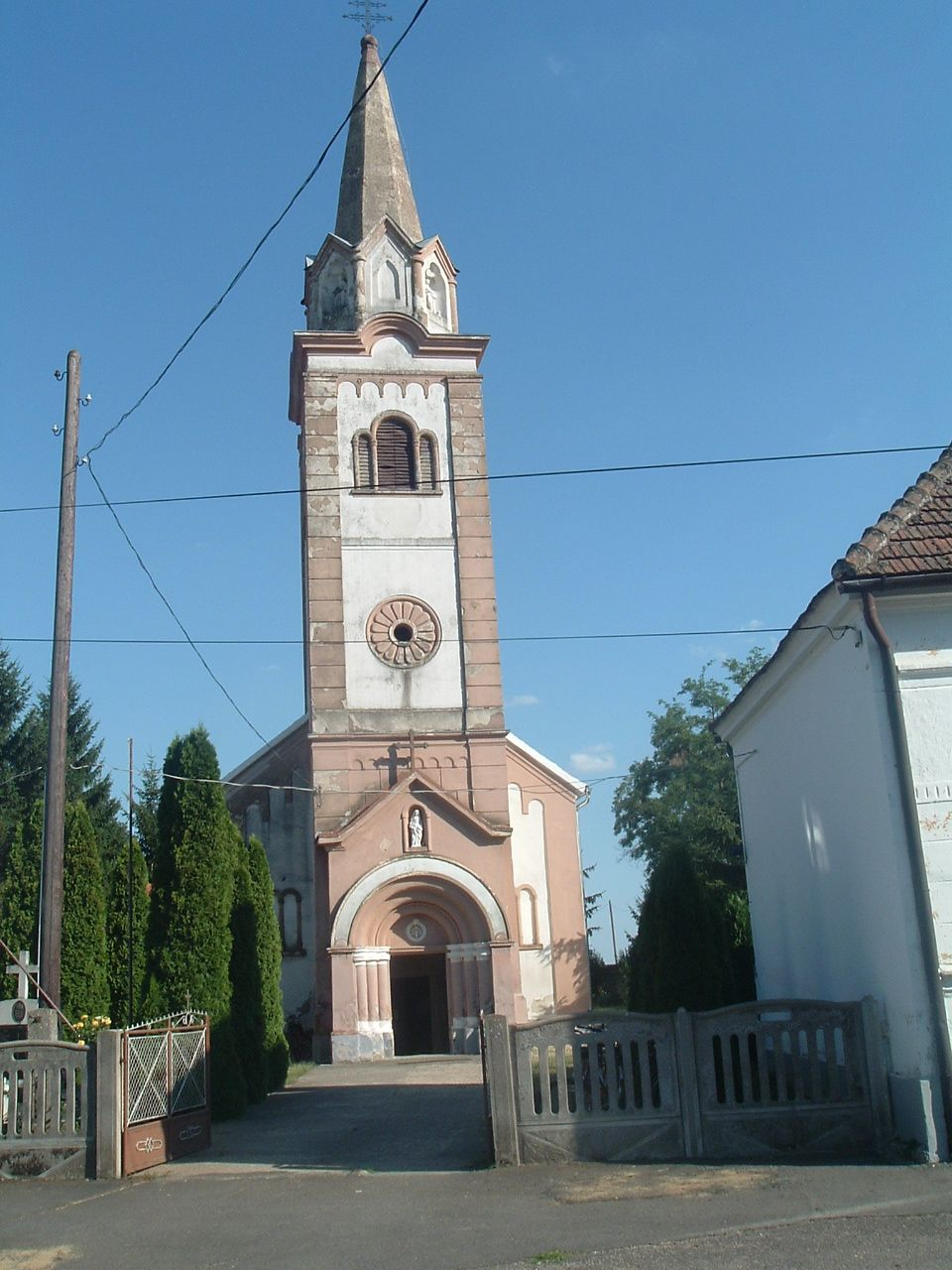 Roman Catholic Church in Lócs. Kisboldogasszony római katolikus templom